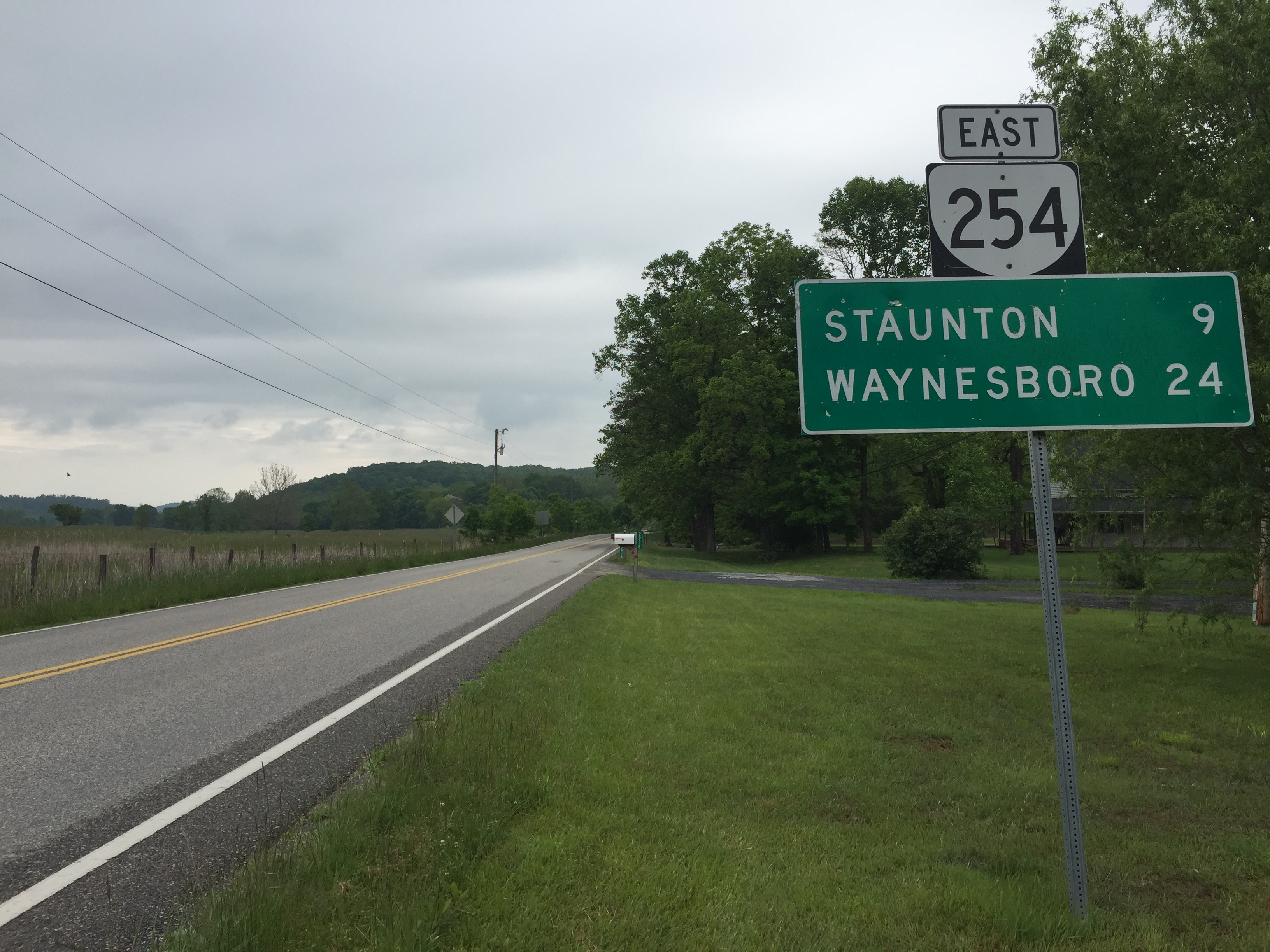 View east along the Parkersburg Turnpike (Virginia State Route 254) near Buffalo Gap Highway (Virginia State Route 42) in Buffalo Gap, Augusta County, Virginia